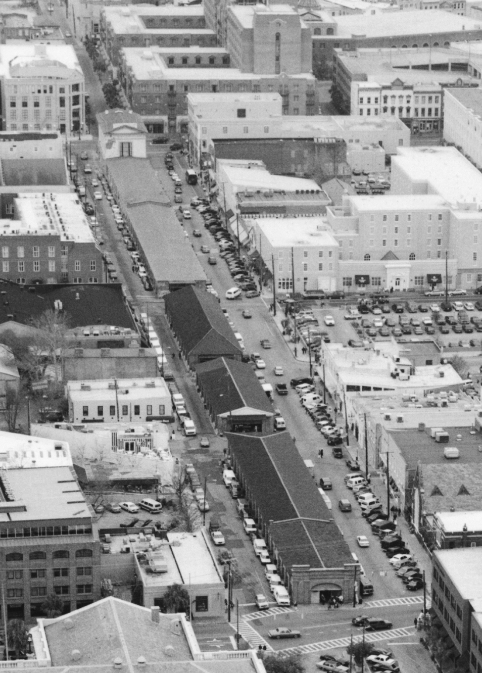 Market Hall and Sheds - Aerial View, Looking Northwest Along Market Street (Center). - City Plan Of Charleston, Charleston, Charleston County, SC, United States